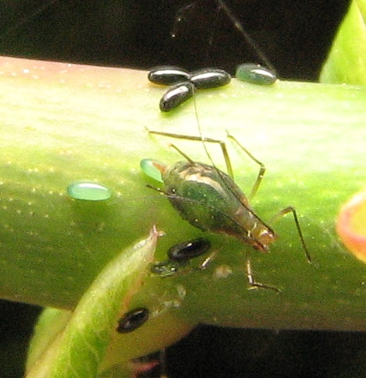 Macrosiphum aphid laying eggs on rose bush (probably Macrosiphum rosae). Size: Less than 1 mm. Willow Grove, Montgomery County, Pennsylvania, USA.